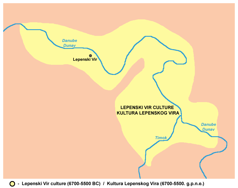 Lepenski Vir culture (6700-5500 BC).